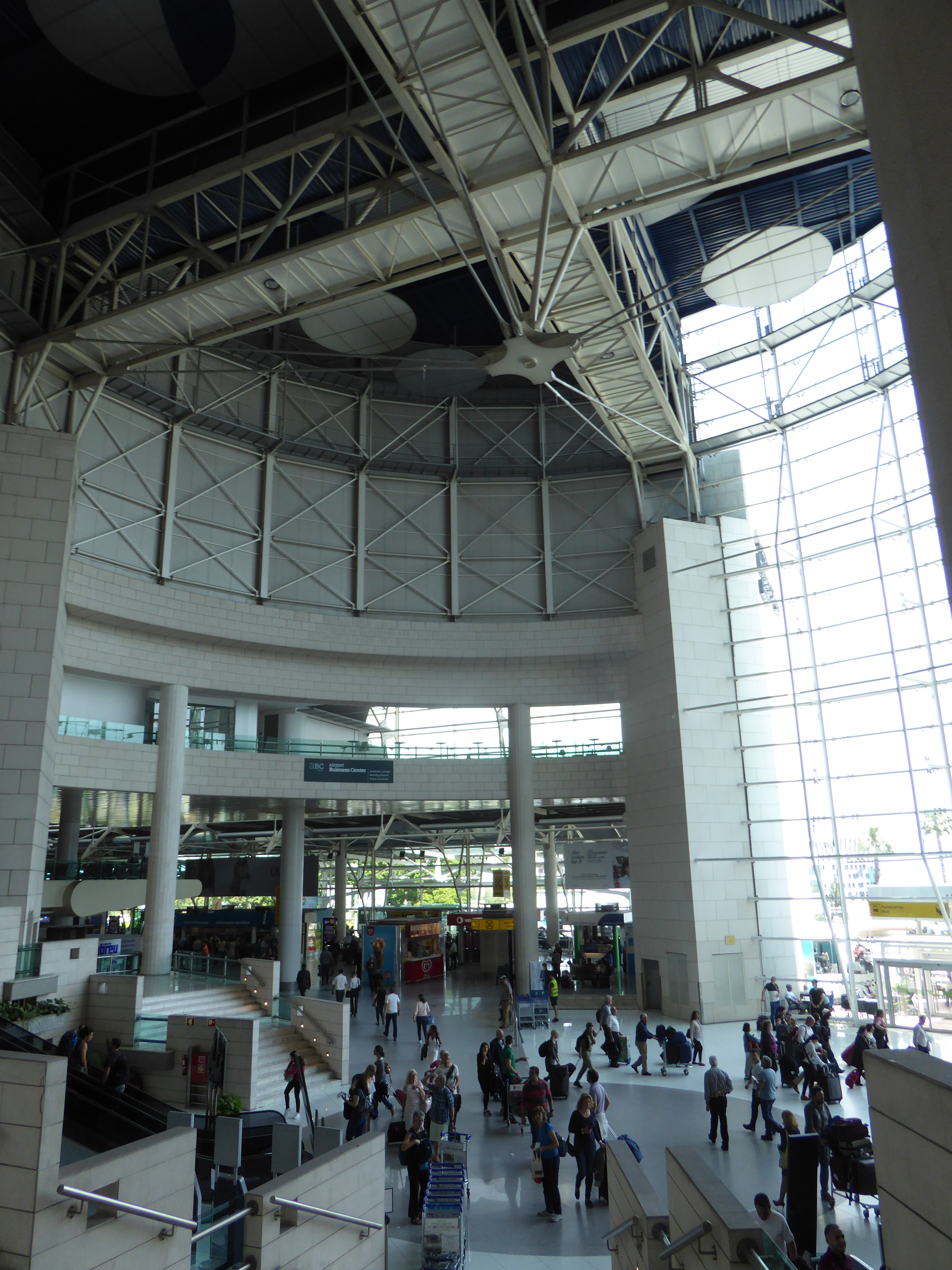 Lisbon Portela Airport Terminal 1, Lisbon, Portugal, May 2017